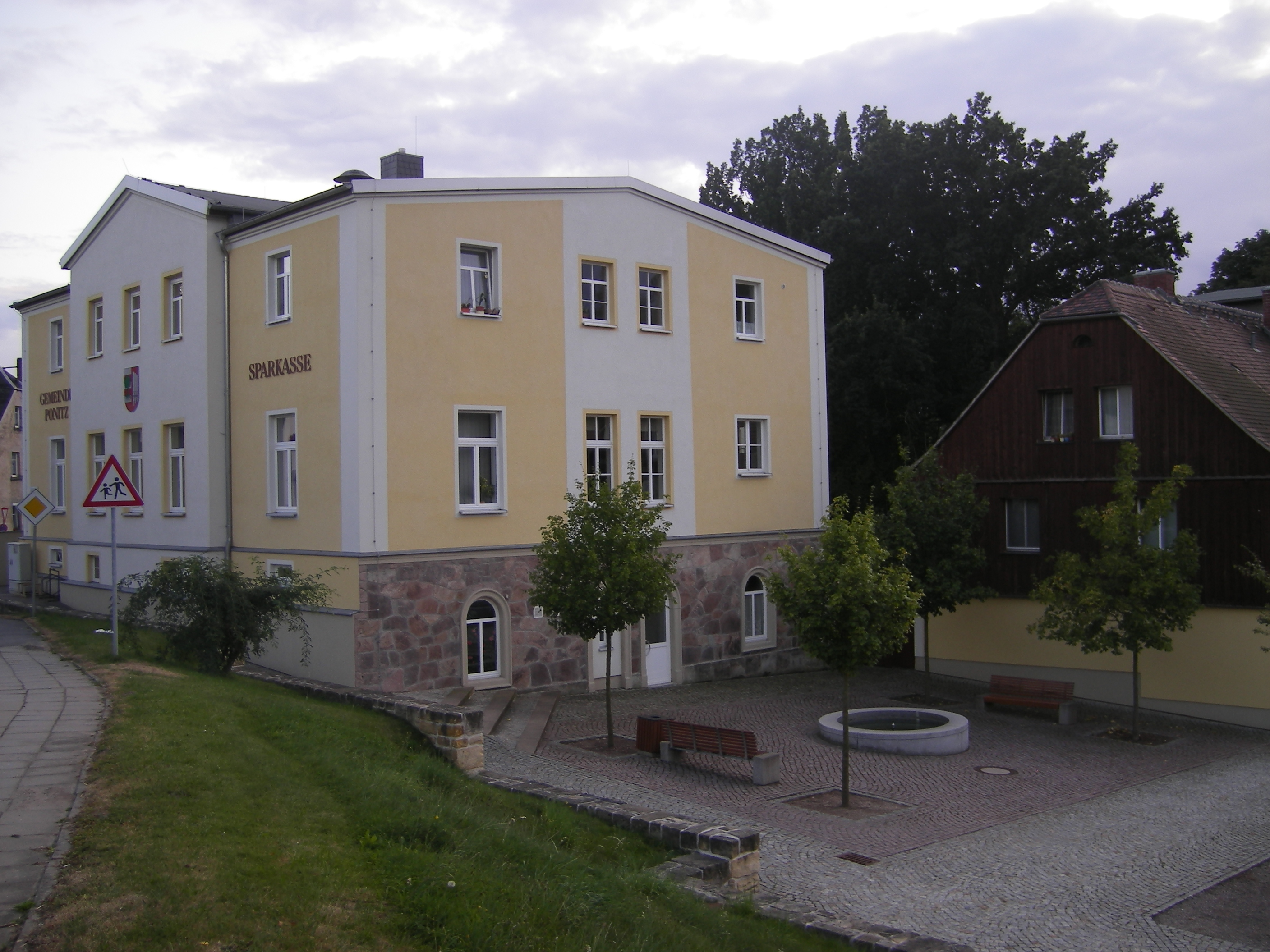 The municipal office in Ponitz, Thuringia, Germany.